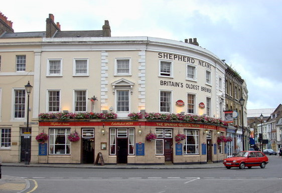 The Spanish Galleon Tavern